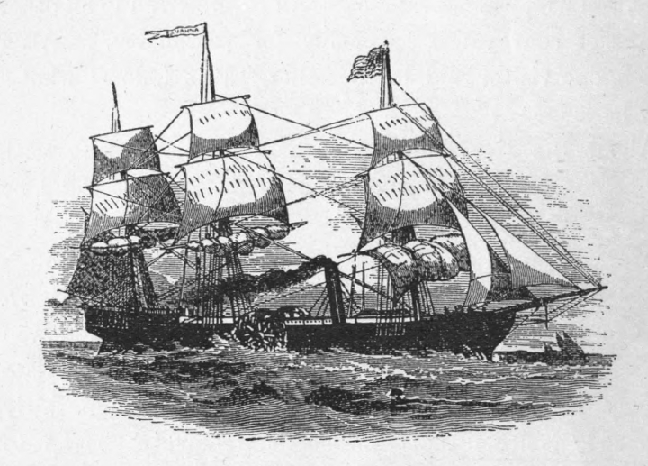 Illustration of SS Savannah (1819) under both sail and steam power.